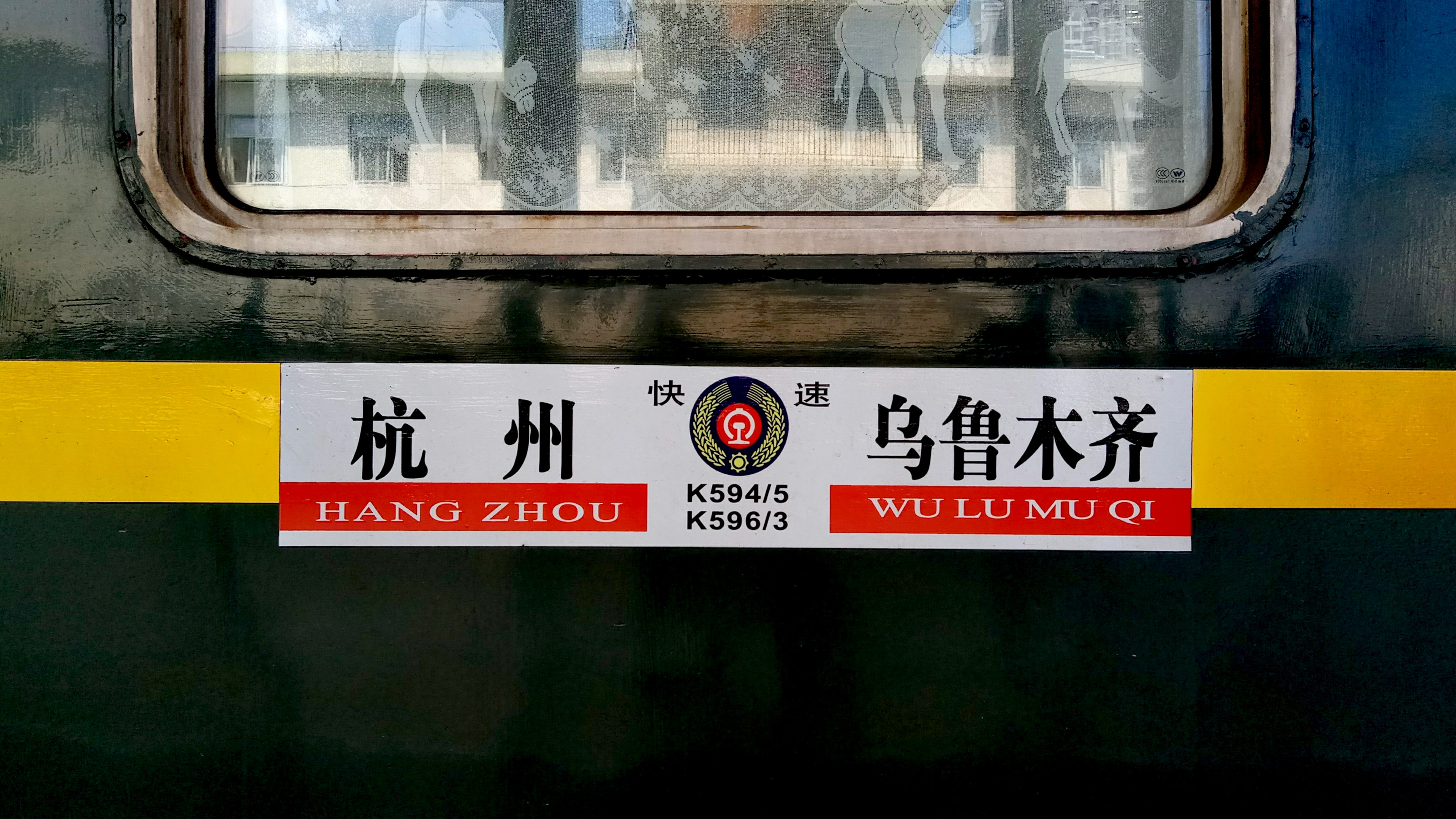 K593 4 5 6 Information Board